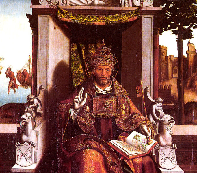 detailfrom an altarpiece of the Cathedral of Viseu